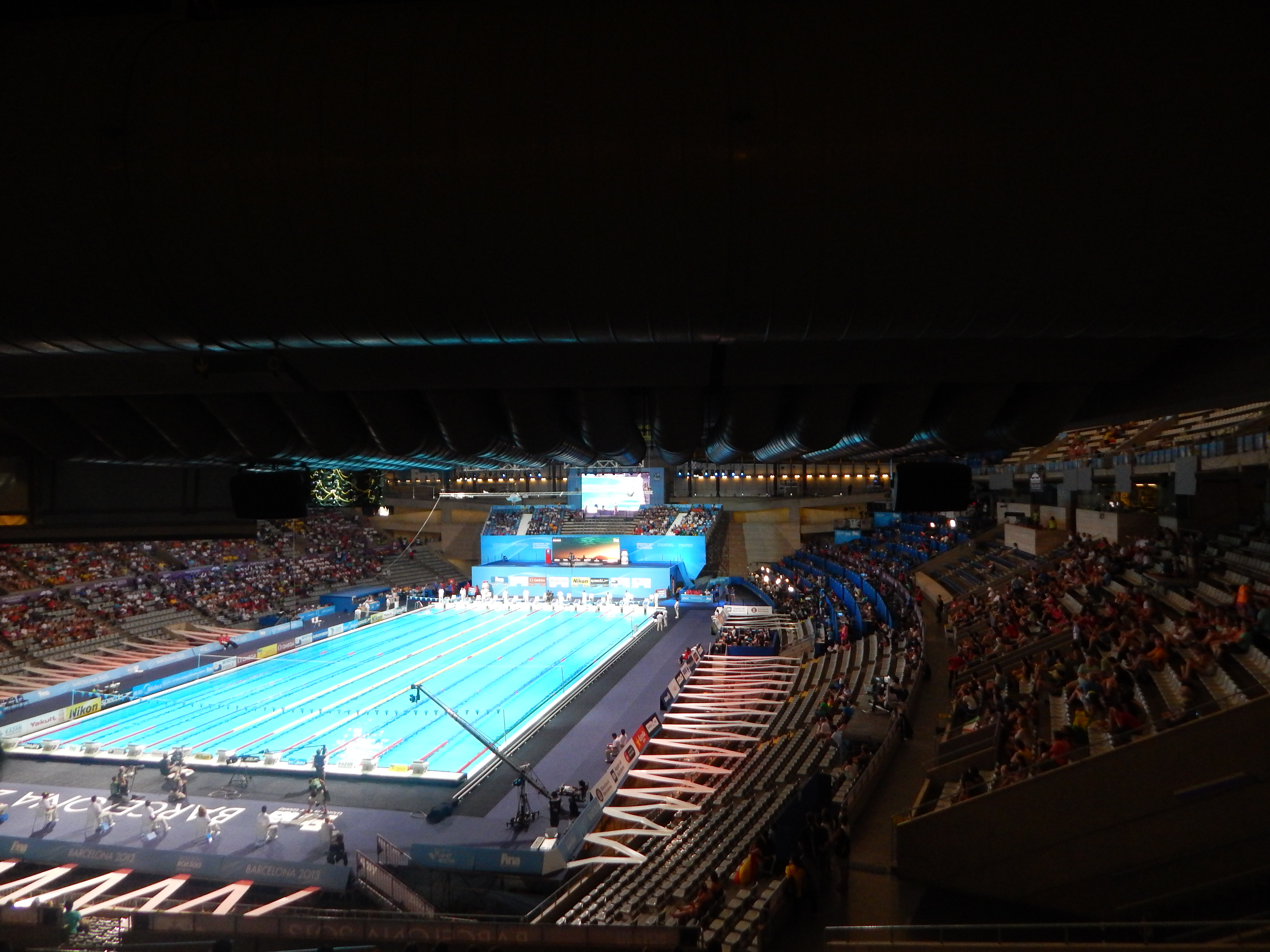 Palau Sant Jordi was de main venue of the World Aquatics Championships Barcelona 2013